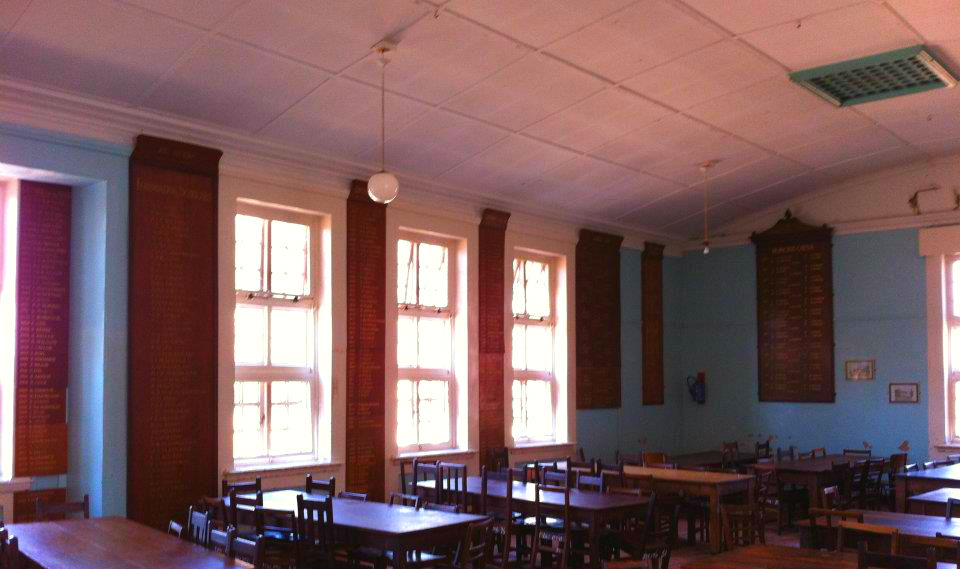 Inside the school's dining hall. Table allocation is random, but every year group is represented on each table.